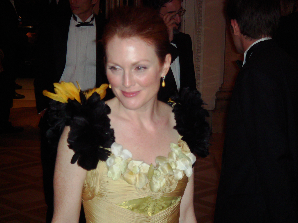 Julianne Moore